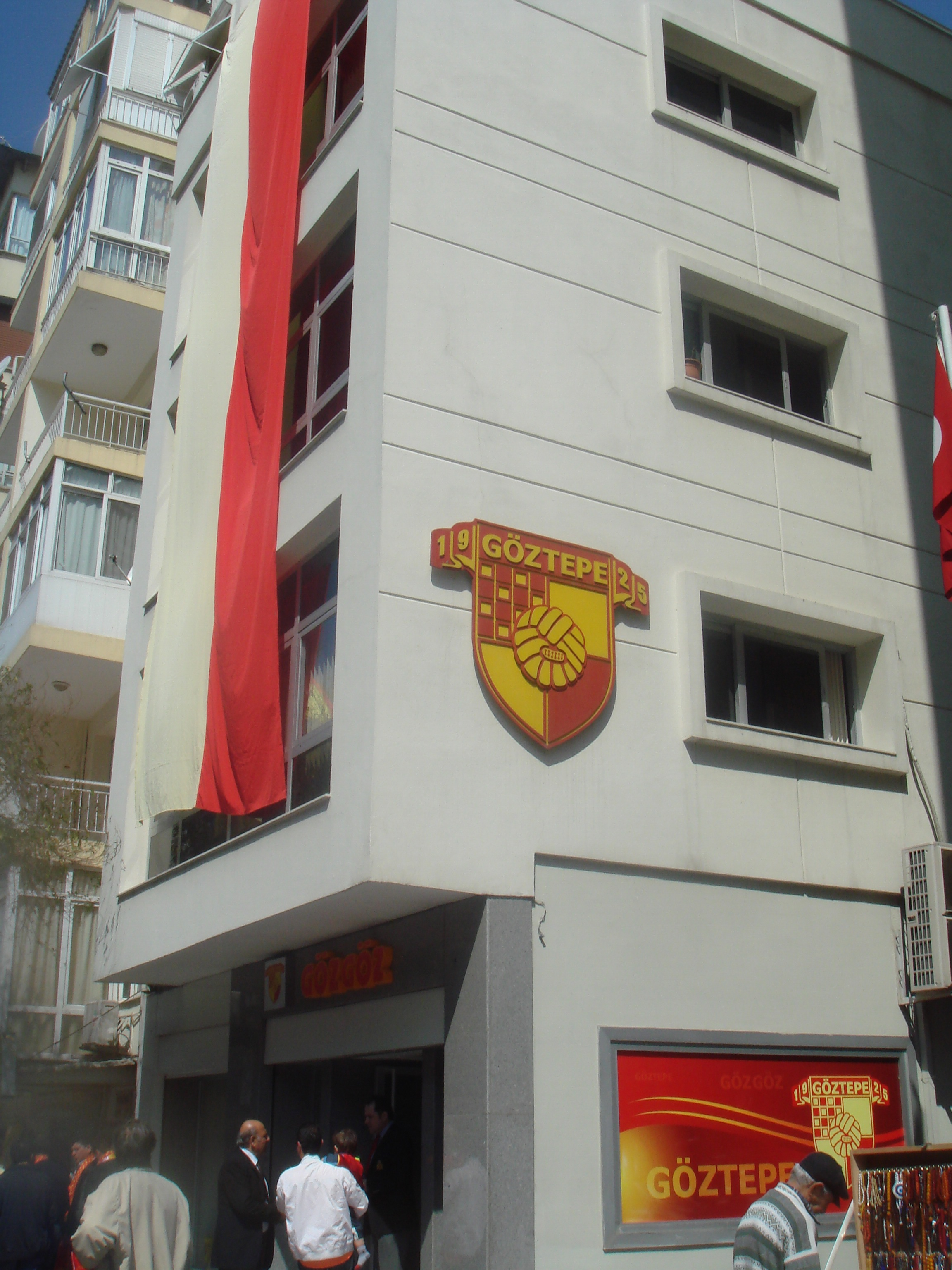 Göztepe Club Headquarters in Güzelyalı, İzmir, in April 2011